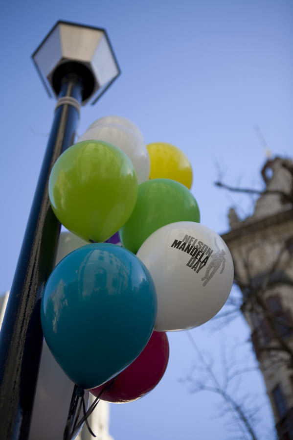 Charlies's Bakery, a highly successful Cape Town based bakery, organised a fan walk to celebrate the 92nd birthday of Nelson Mandela, a state hero. The walk was also dedicated to create awareness of xenophobia in the South Africa.